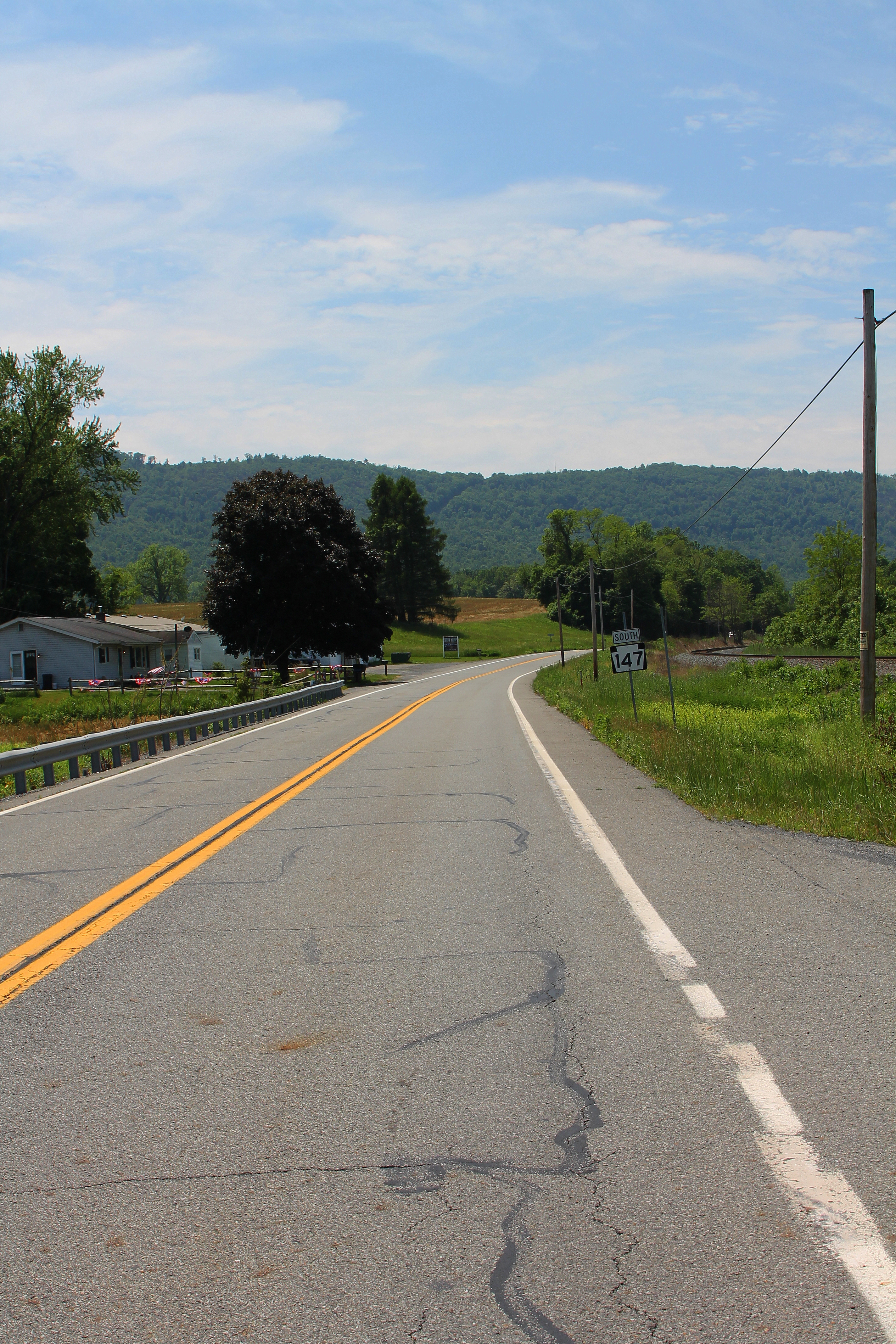 Pennsylvania Route 147 southbound in Upper Paxton Township, Dauphin County, Pennsylvania.